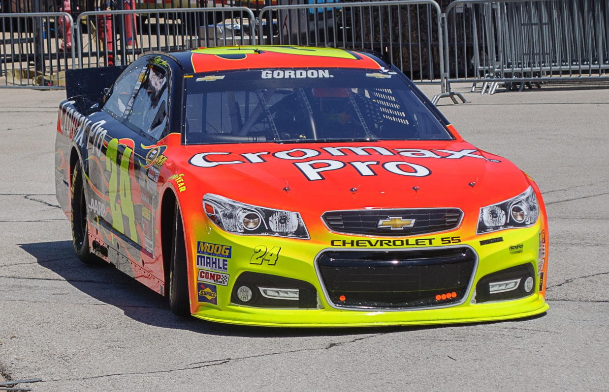 Jeff Gordon drives the No. 24 Chevrolet through the garage at Texas Motor Speedway during practice for the 2013 NRA 500.